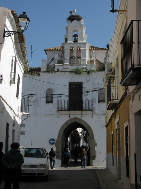 Arch of Jerez, Zafra (province of Badajoz, Spain).